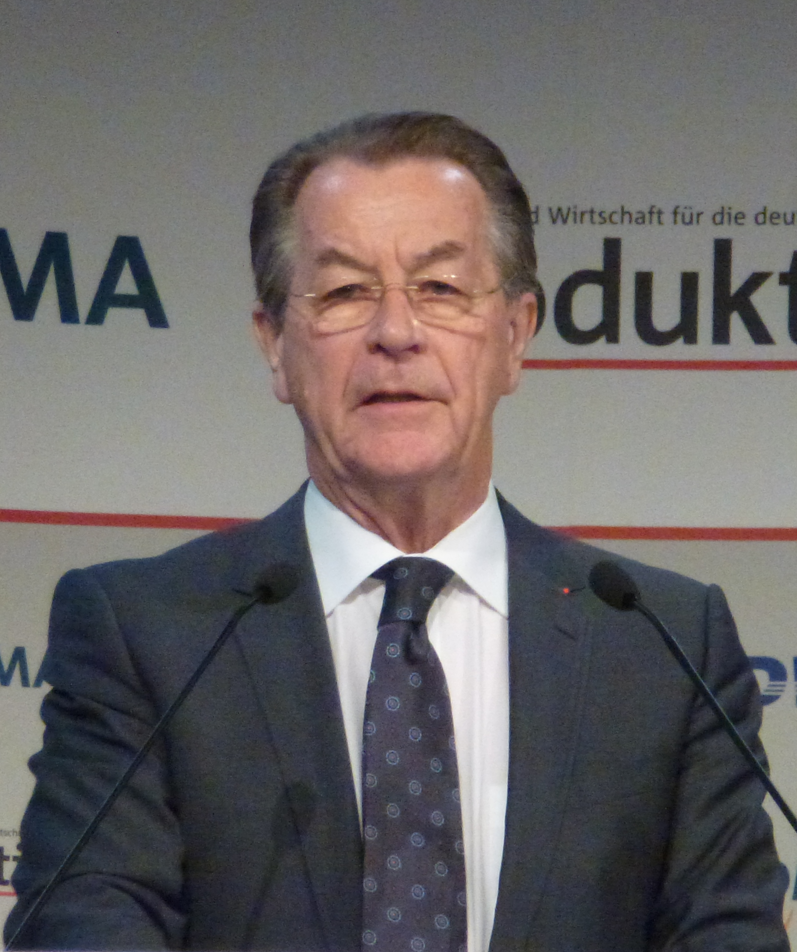 SPD Politician Franz Müntefering at a conference 2012